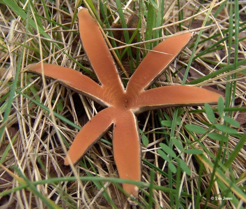 Chorioactis geaster, appearing along a trail to the river through the upland rim rock Live Oak-Ashe Juniper-Cedar Elm woods in a nature preserve/wildlife management area above the Blanco River near Fischer Store Road, Hays County, Texas